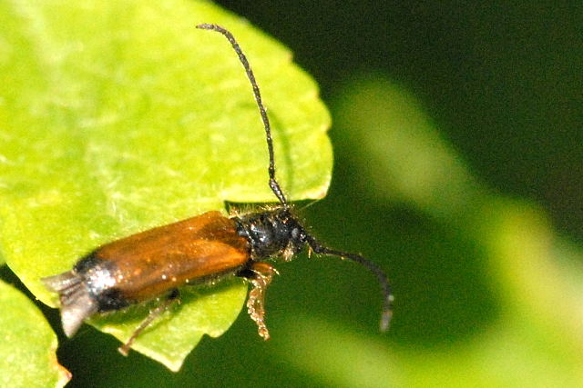 Tetrops praeustus from Commanster, Belgian High Ardennes .